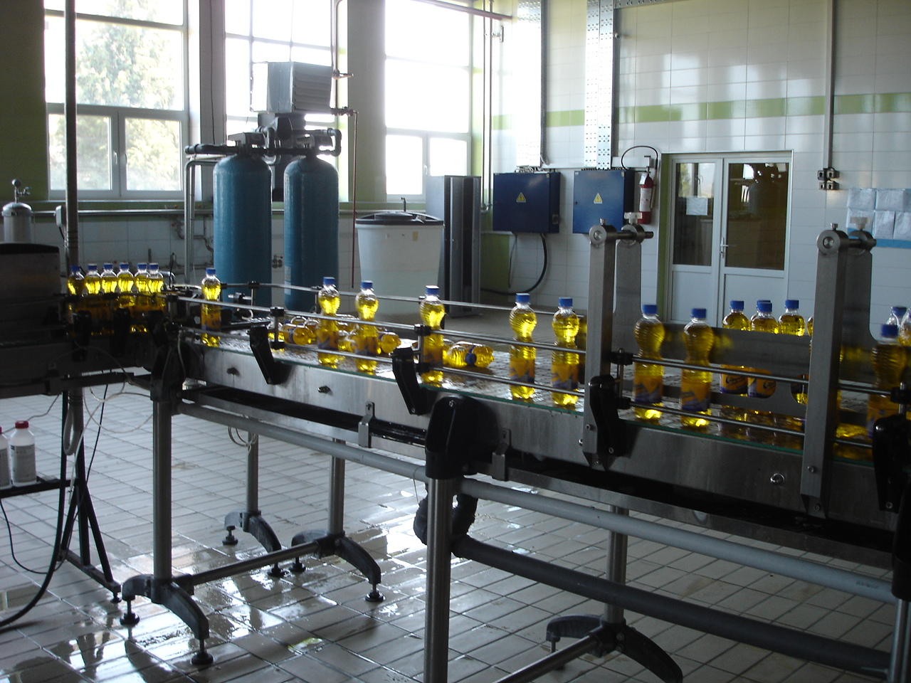 Production plant of Grozd Strumica